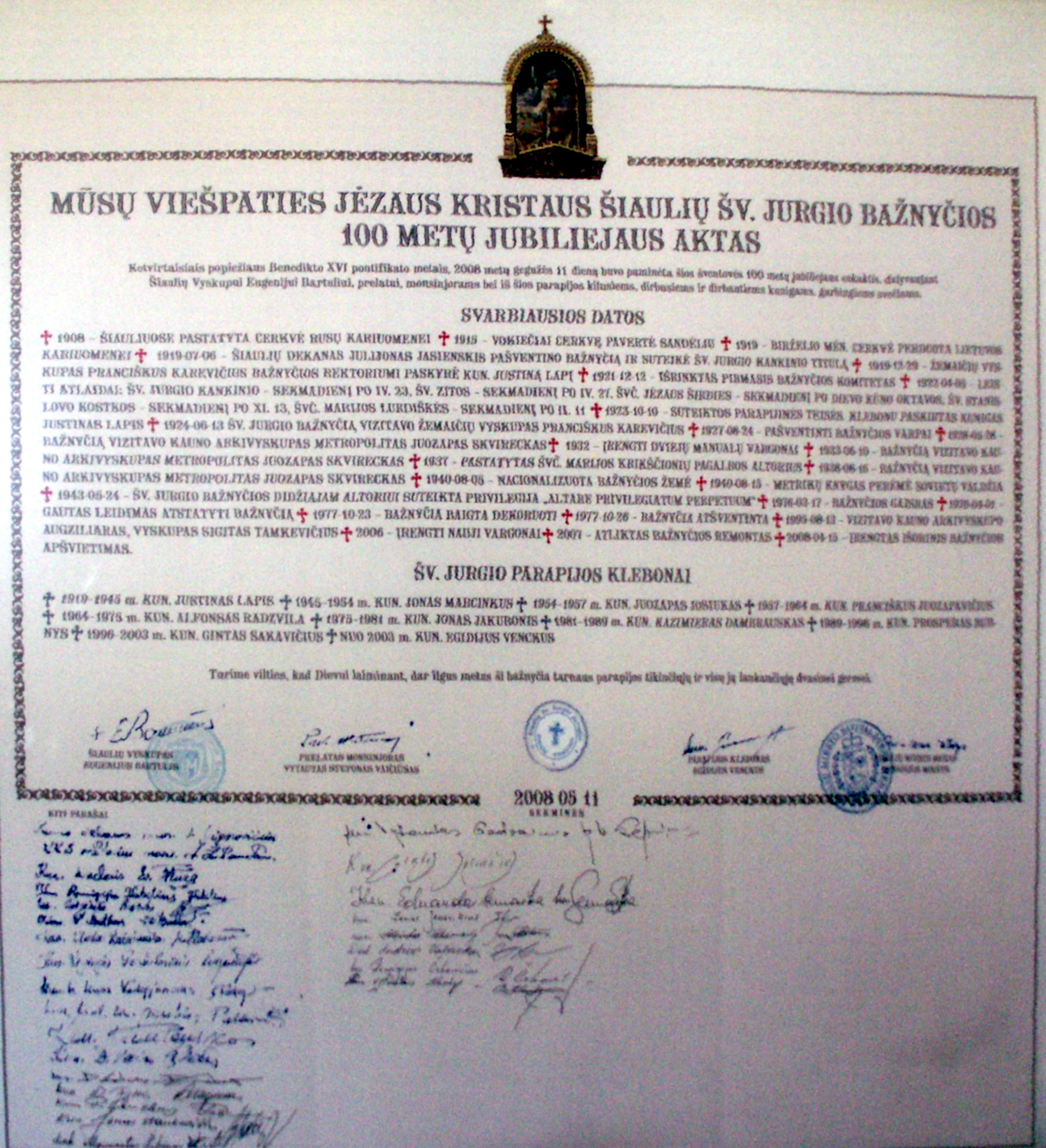 act of 100 anniversary of Church of St. Georg in Šiauliai, Lithuania